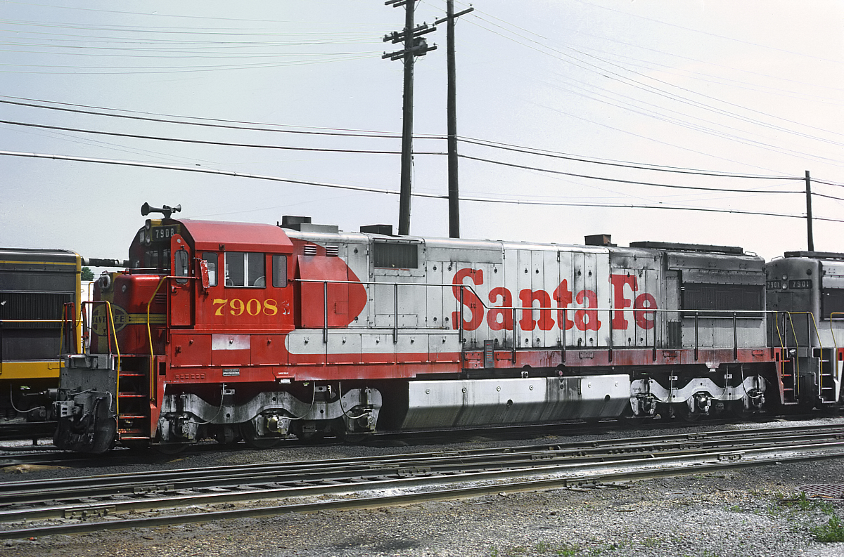 ATSF No. 7908, a GE U28CG, in freight service in 1971.